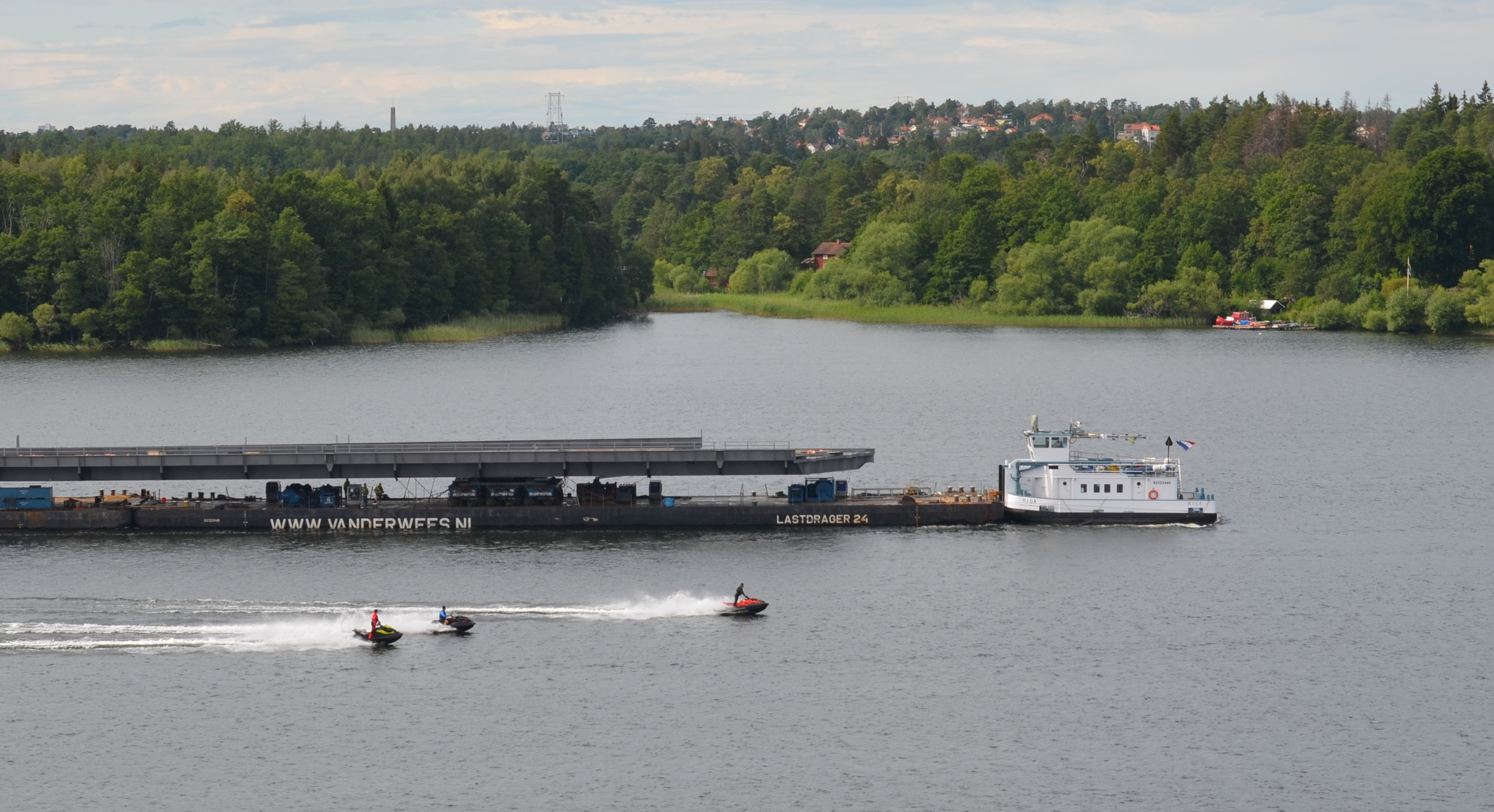 Pusher tug Riga with part of new bridge at Lake Mälaren in Stockholm, Sweden